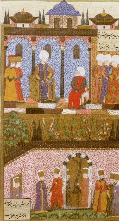 Presentations of gifts to Sultan Süleyman the Magnificent on the occasion of the circumcision of his sons Bayezid and Cihangir in 1530. Ottoman miniature painting from the Süleymanname. Hazine. 1517, folio 412a